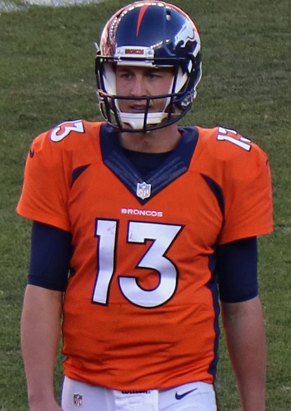 Trevor Siemian, a player on the National Football League.